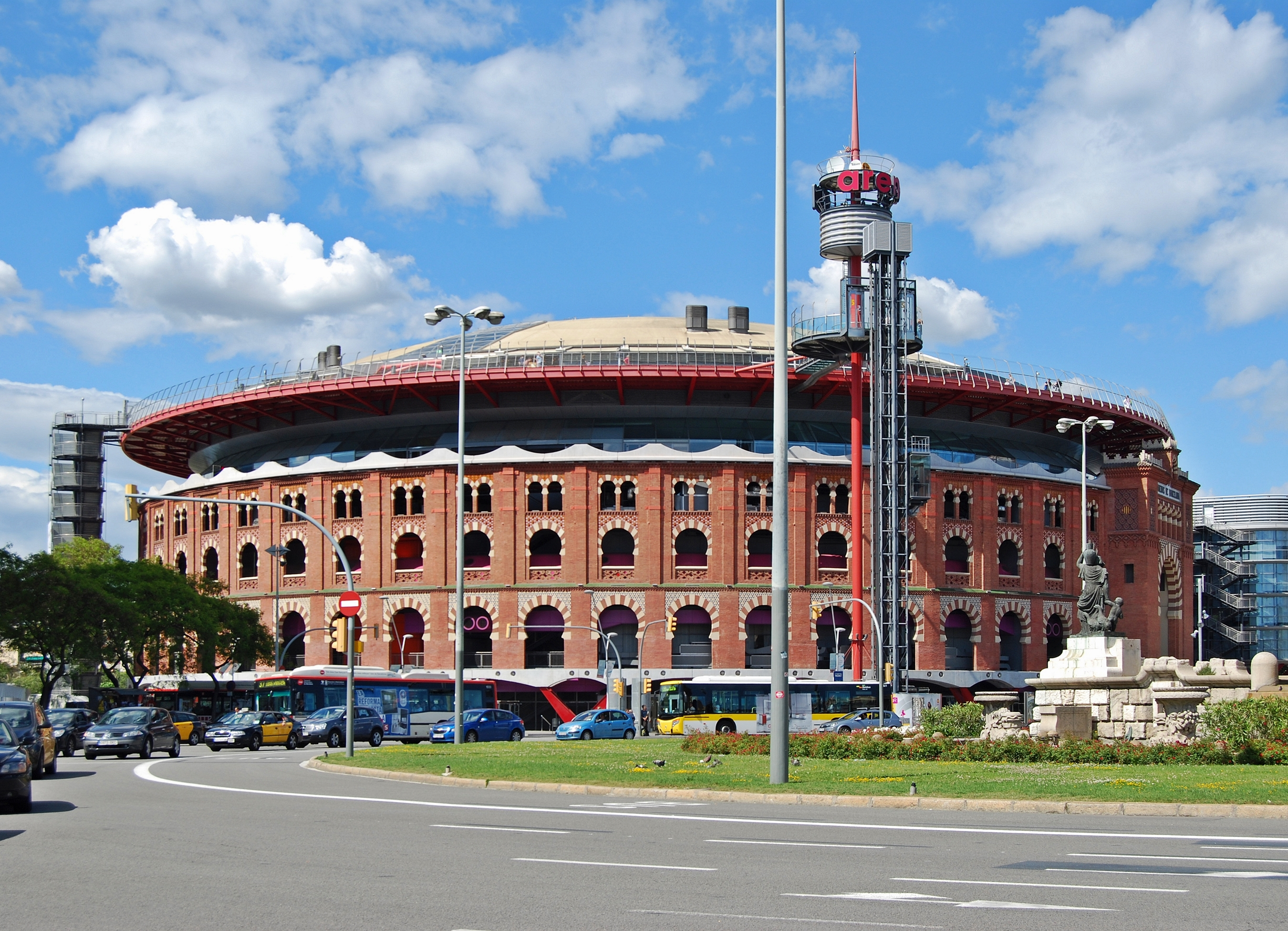 The commercial center Arenas de Barcelona.